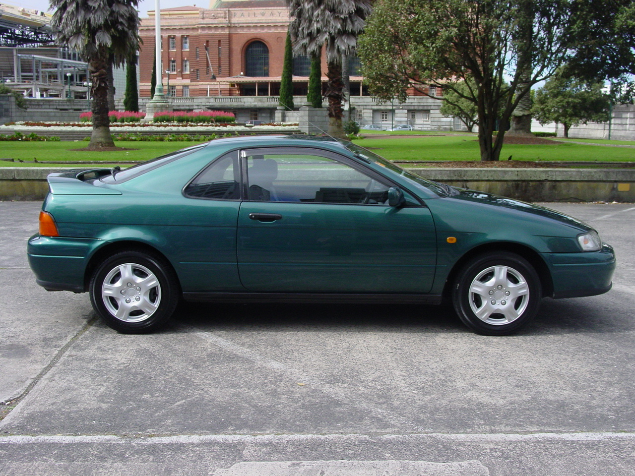 1994 Toyota Cynos Beta - Japanese Domestic Model, imported to New Zealand